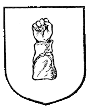 Fig. 268.—A cubit arm habited.